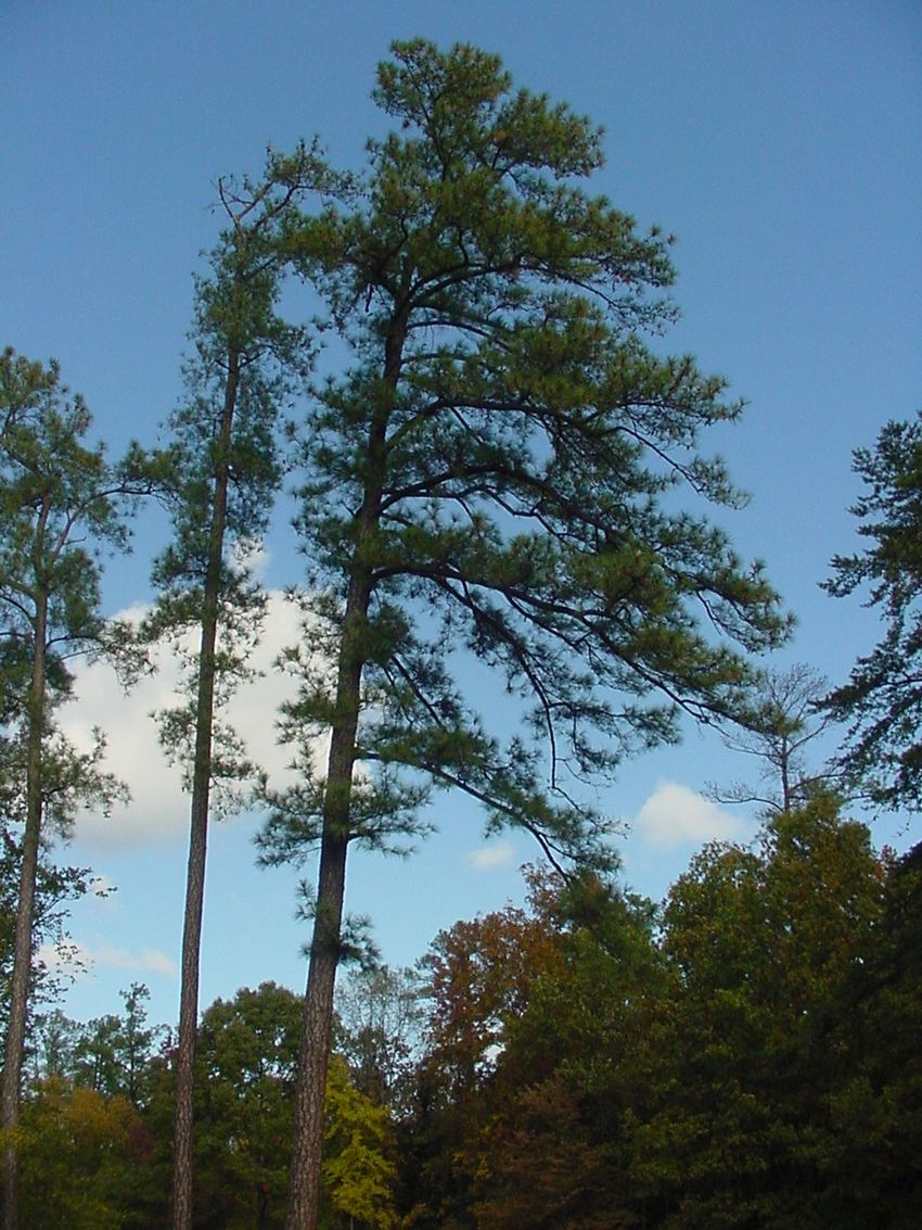 Pinus taeda (loblolly pine) in Richmond Battlefield Park, Virginia